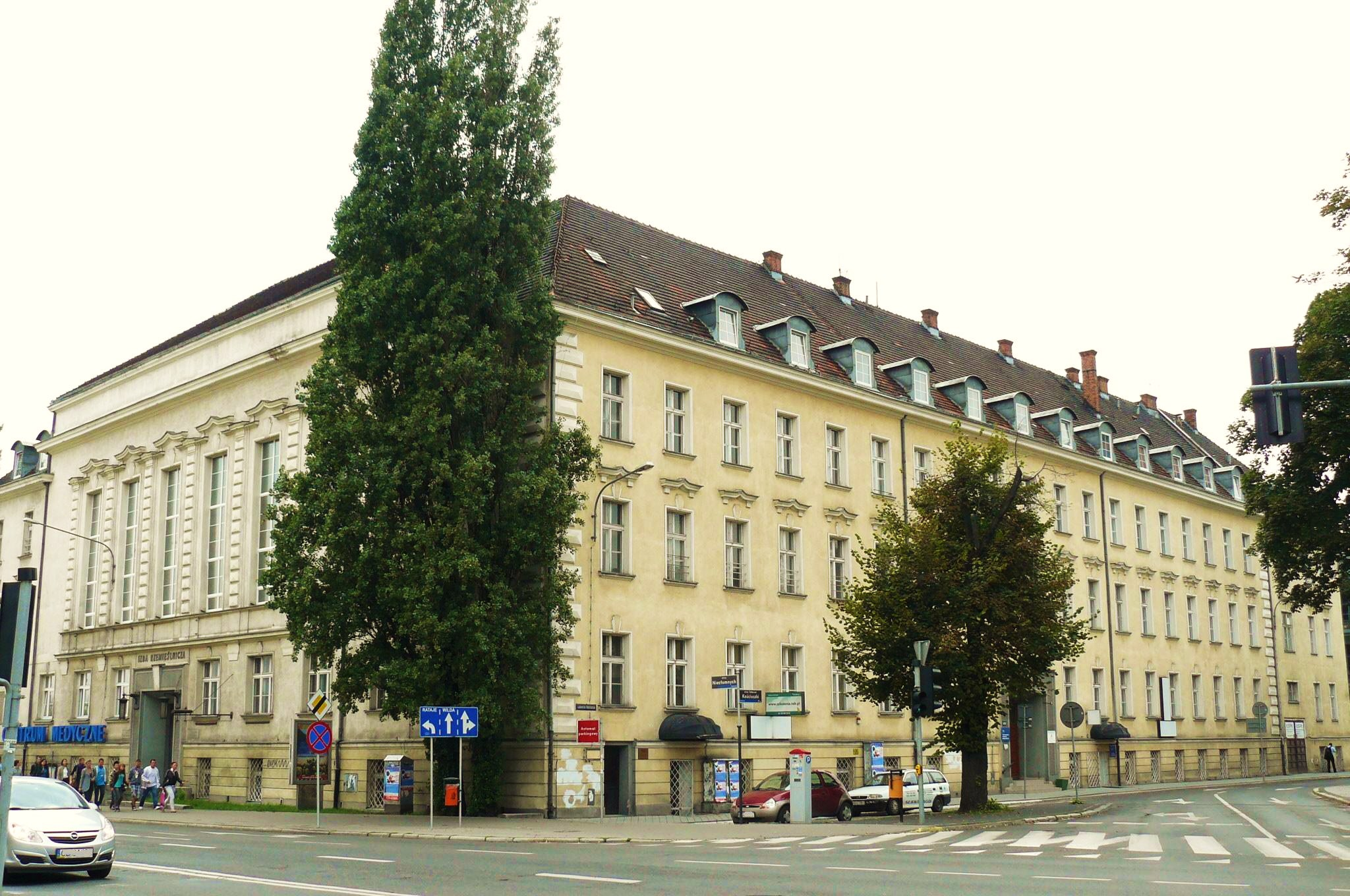 Kosciuszko Street - Poznan.